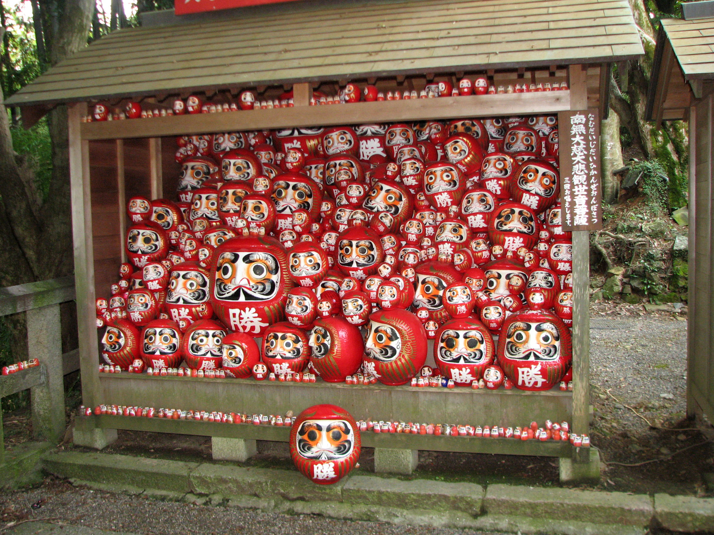 Each of these is a wish come true. You buy the Daruma from the temple, write your dream on it and fill in one eye. If you get what you wished for, you fill in the other eye and bring it back to the temple. They range in price from 2000 yen to upwards of 100,000.